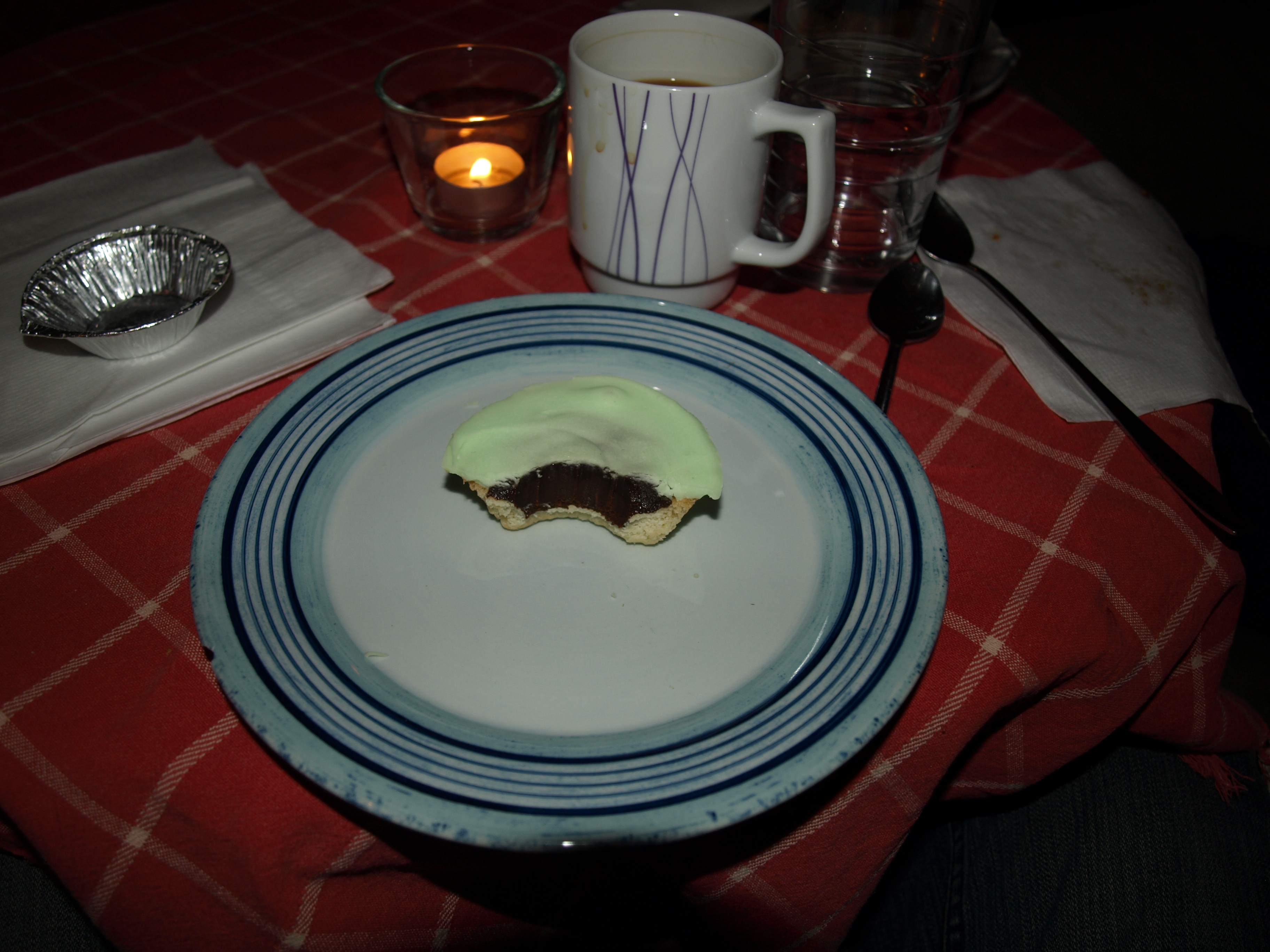 A "studentska", a classic pastry of Uppsala, Sweden.